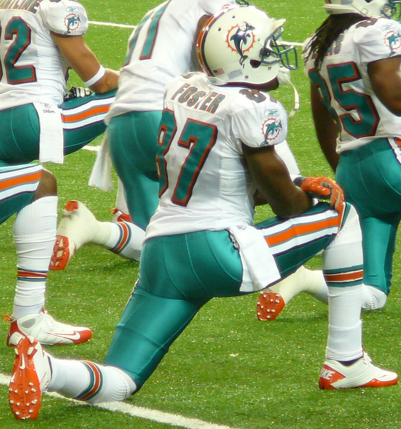 Picture of some guy kneeling